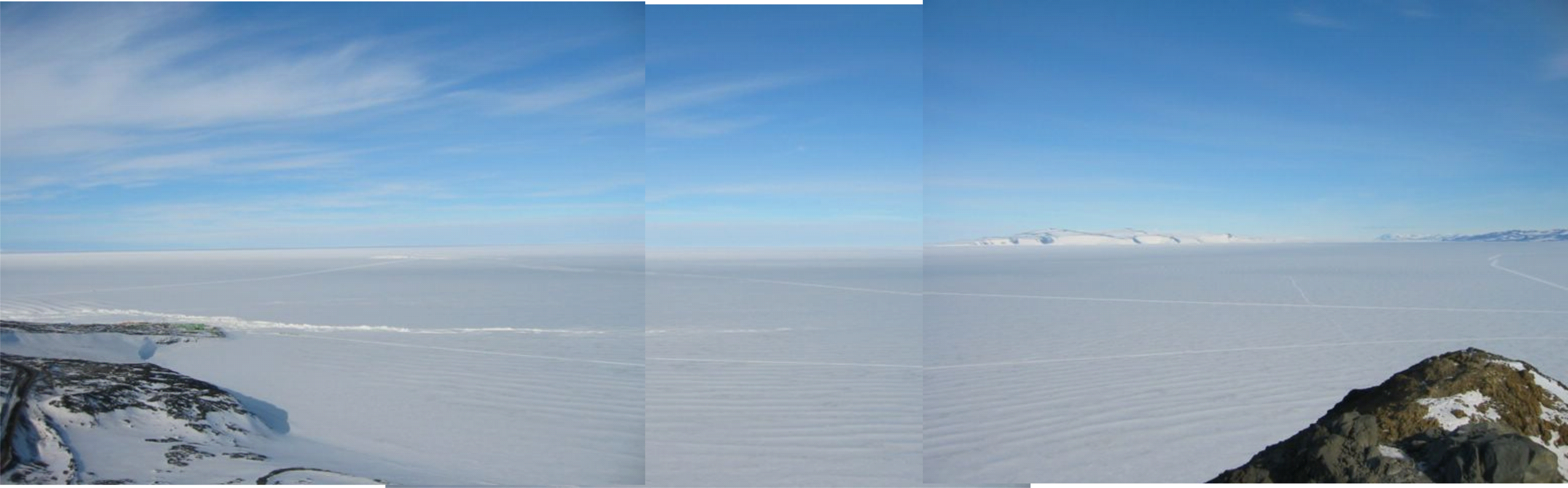 Panorama view of Haskell Strait with Scott Base (far left), Cape Spencer-Smith (far centre) and Observation Hill (lower right)